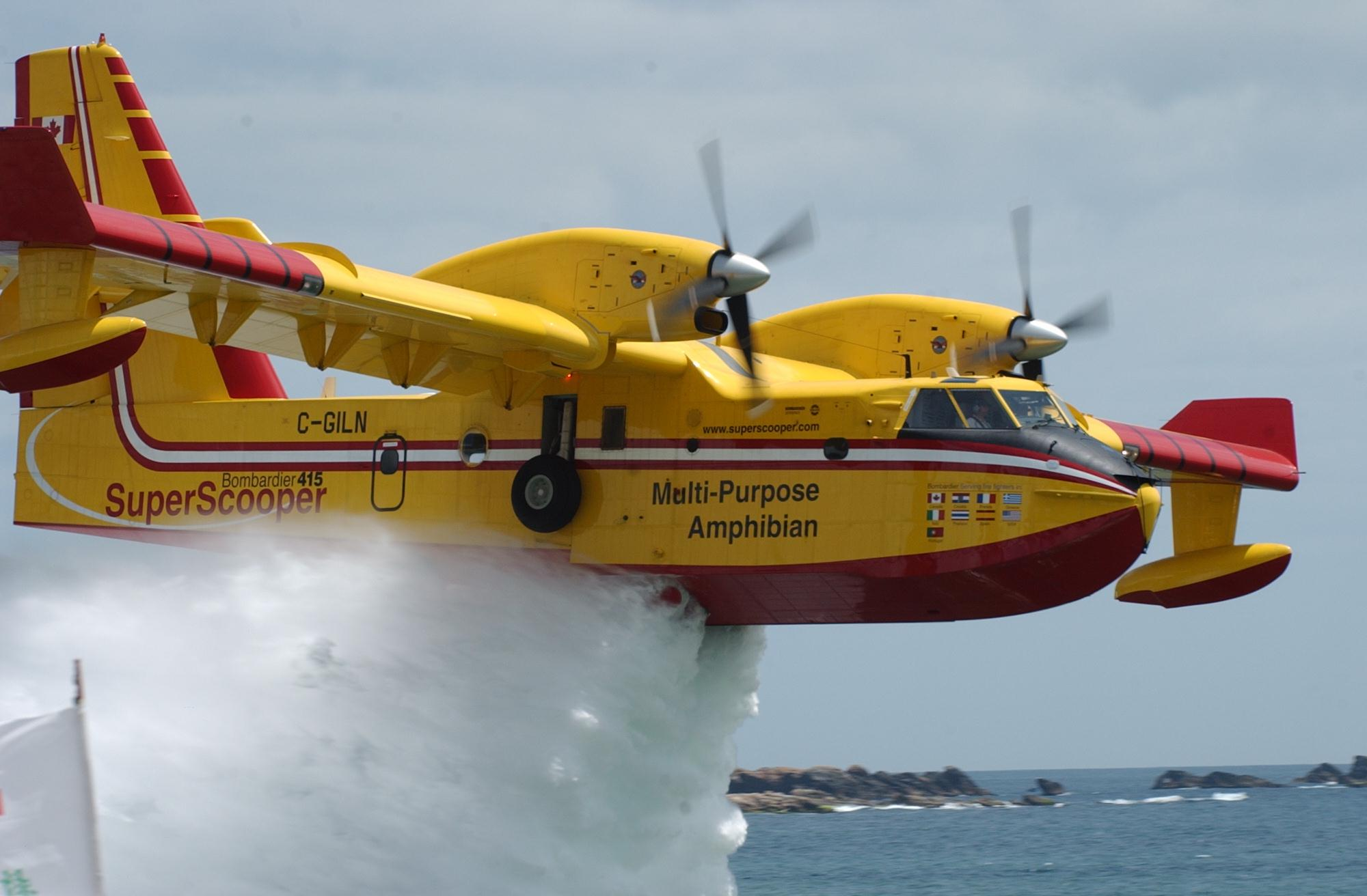 Canadair CL-415 C-GILN demonstrating to the Taiwanese Government on the Northern coast of Taiwan on May 6, 2002.